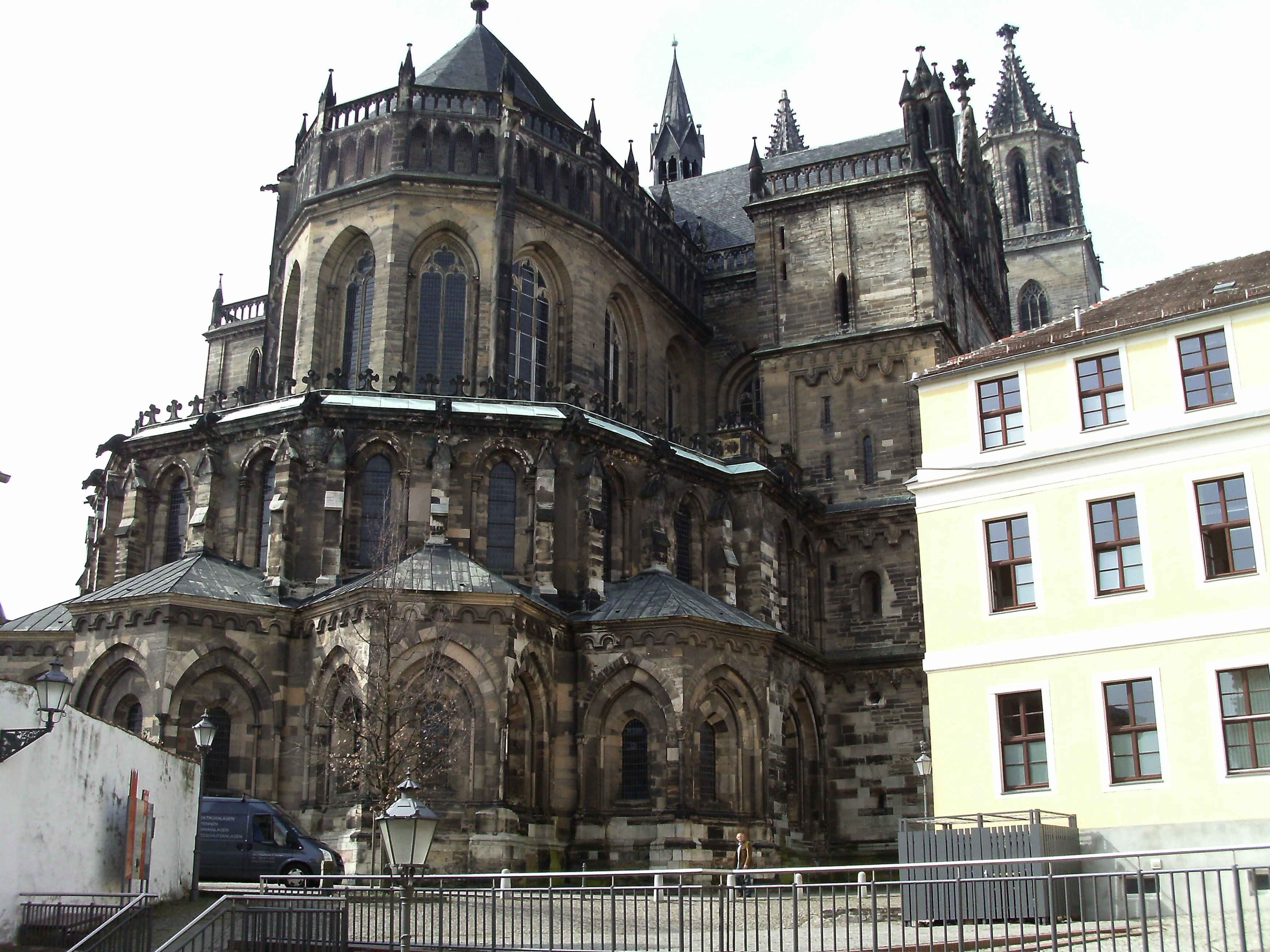 Magdeburg Cathedral, view from the courtyard of the Möllenvogtei